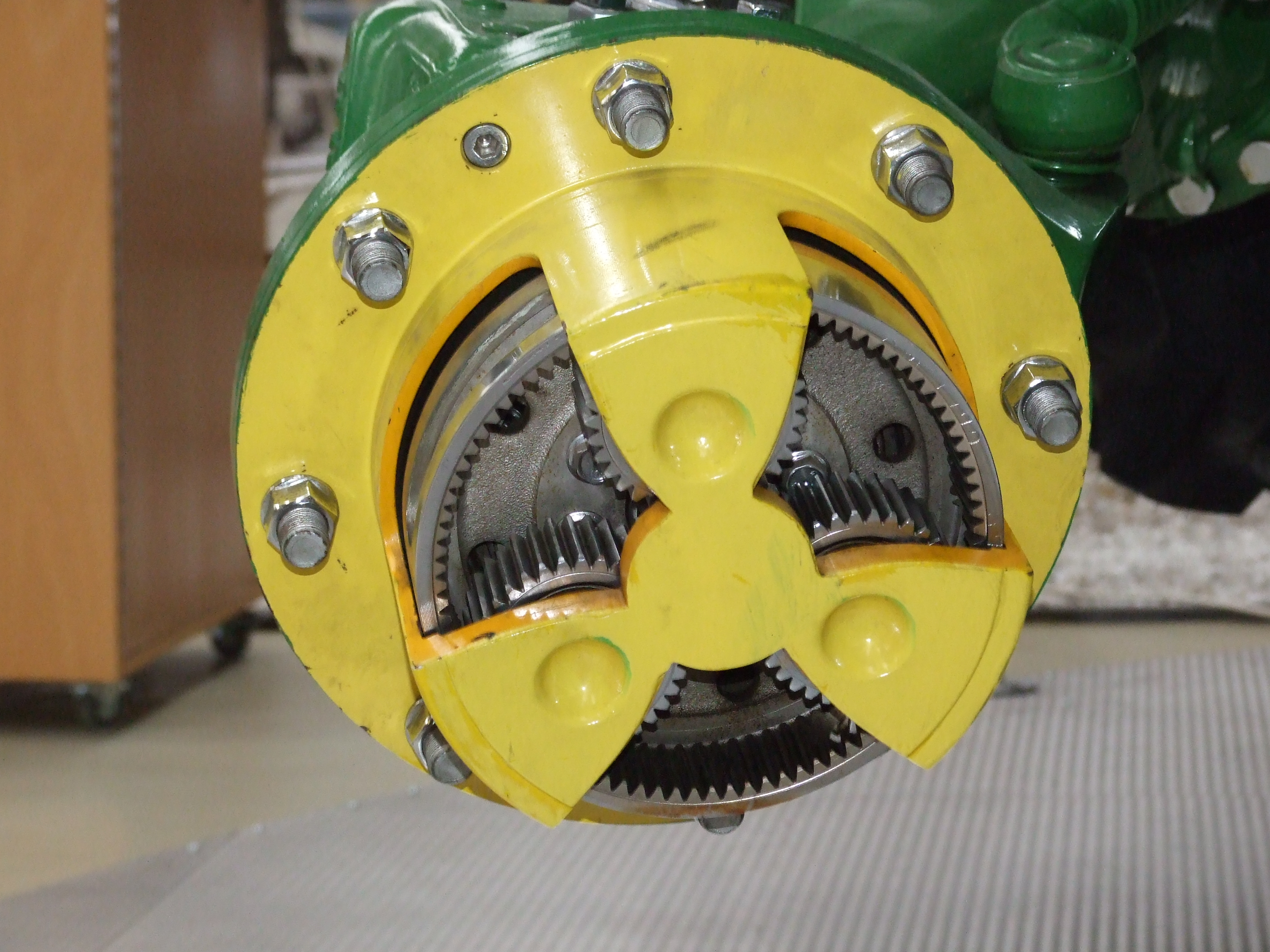 John Deere 3350 tractor cut in Technikmuseum Speyer